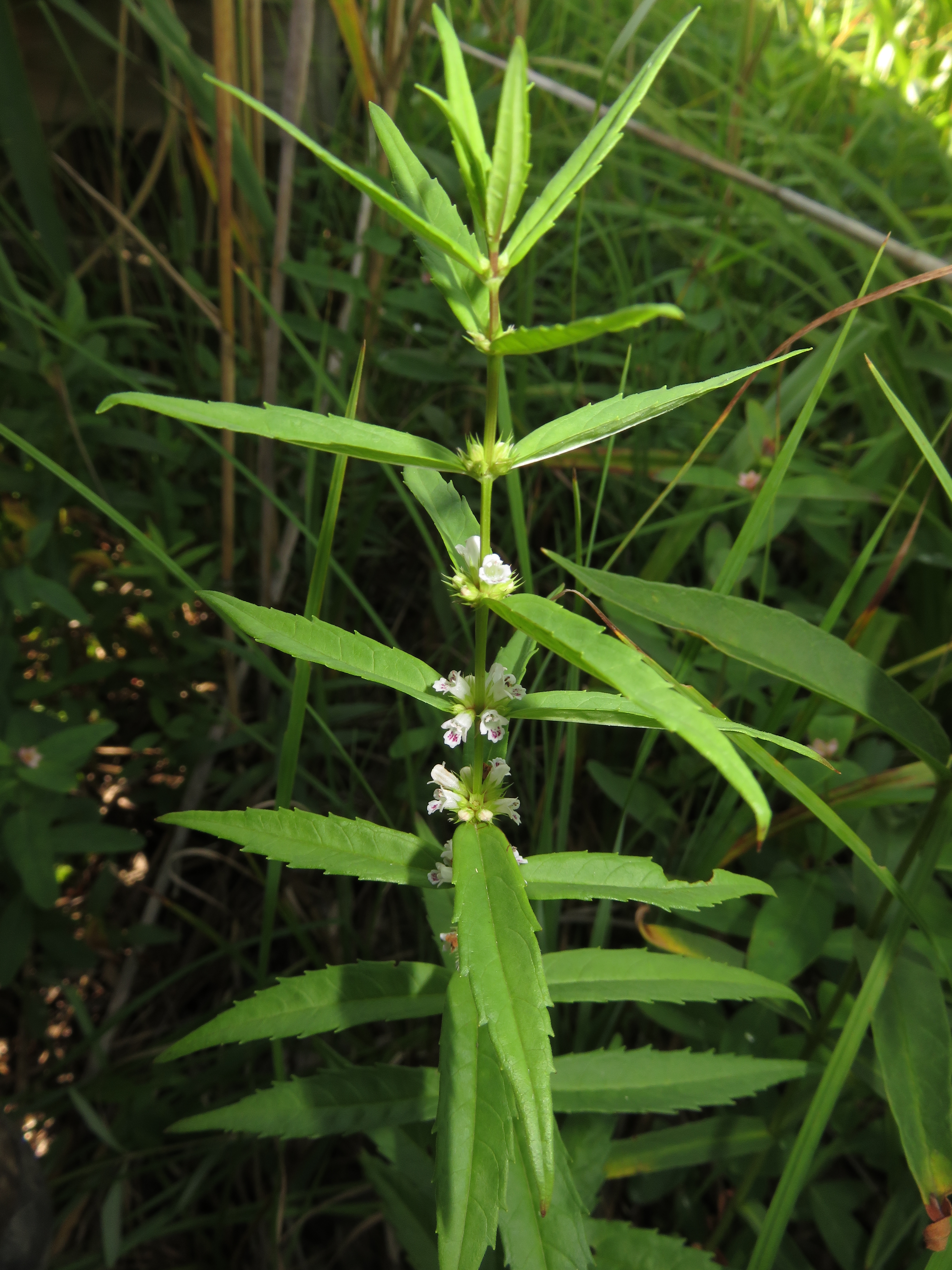 Lycopus maackianus, Aizu area, Fukushima pref., Japan